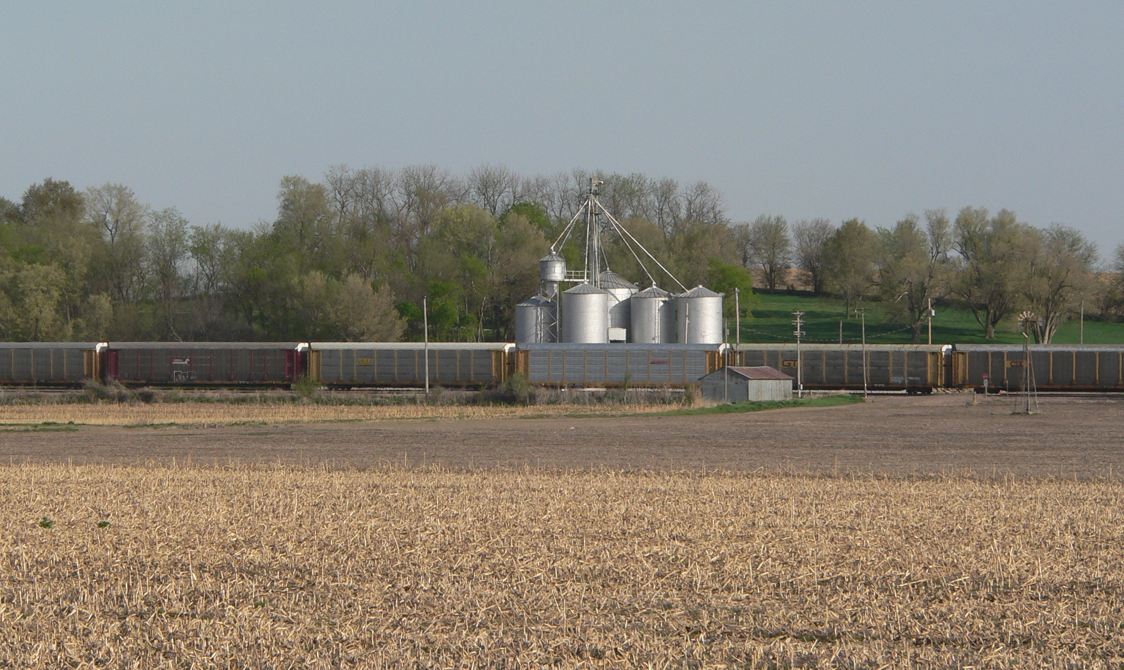 Preston, Nebraska; seen from the northwest.